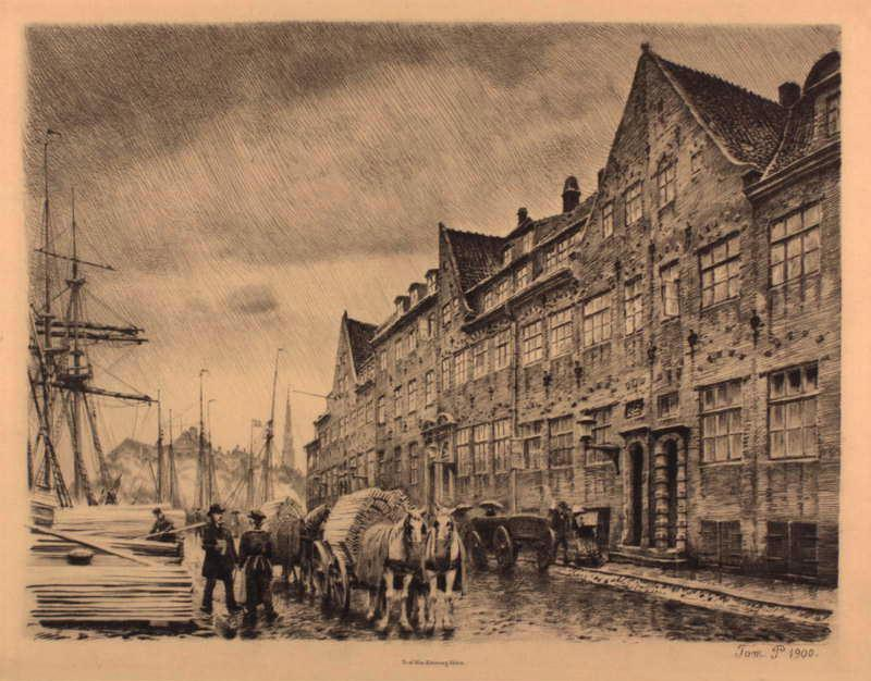 "The Six Sisters", a row of 17th century houses near the Stock Exchange in Copenhagen.